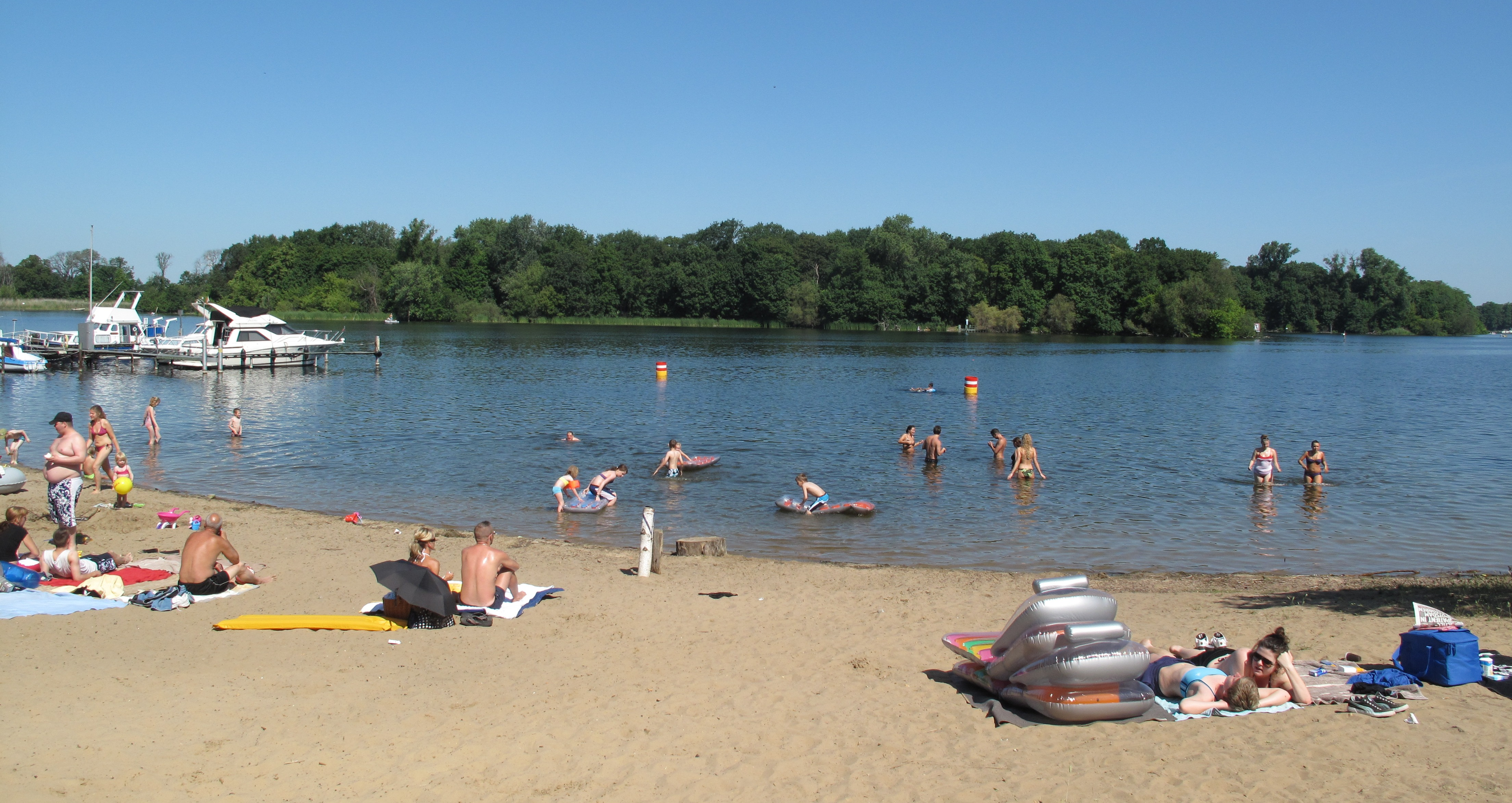 View from the beach in Saatwinkel to the island Baumwerder, situated in the Lake Tegel in Berlin.